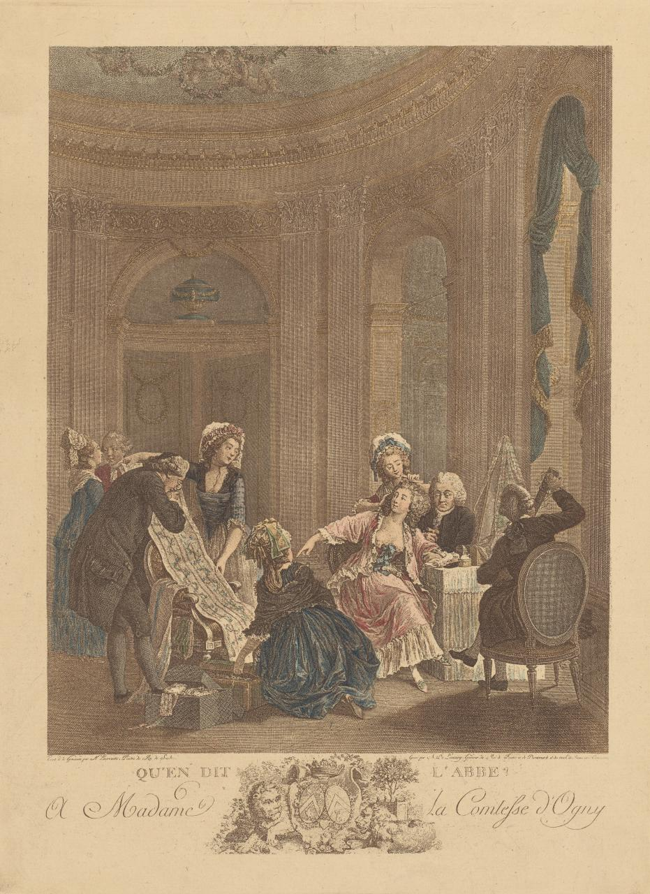 The Swedish miniature painter Nicolas Lavreince (1737-1807) created this Rococo scene in gouache to be engraved by the Parisian master printer Nicolas Delaunay and sold through the fine print market. The print is dedicated to Countess d’Ogny, wife of a young nobleman Claude-François-Marie Rigoley, Comte d’Ogny (1757-1790). We see Madame d’Ogny choosing wallpaper, taking a singing lesson, and having her hair done while entertaining guests in an elegant sitting room.